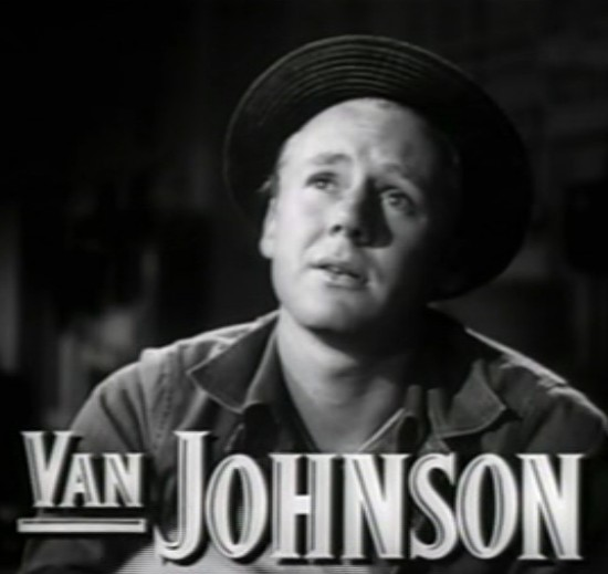 Cropped screenshot of Van Johnson from the trailer for the film The Human Comedy.